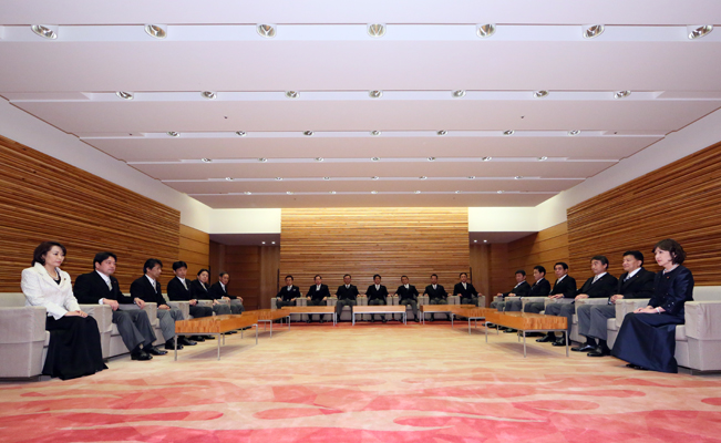 Shinzō Abe, Prime Minister, posed for the photo with Yoshitaka Shindō, Sadakazu Tanigaki, Fumio Kishida, Tarō Asō, Hakubun Shimomura, Norihisa Tamura, Yoshimasa Hayashi, Toshimitsu Motegi, Akihiro Ōta, Nobuteru Ishihara, Itsunori Onodera, Yoshihide Suga, Takumi Nemoto, Keiji Furuya, Ichita Yamamoto, Masako Miyoshi, Akira Amari and Tomomi Inada, Ministers of State, at the Prime Minister's Official Residence in Chiyoda Ward, Tōkyō Metropolis on December 26, 2012.